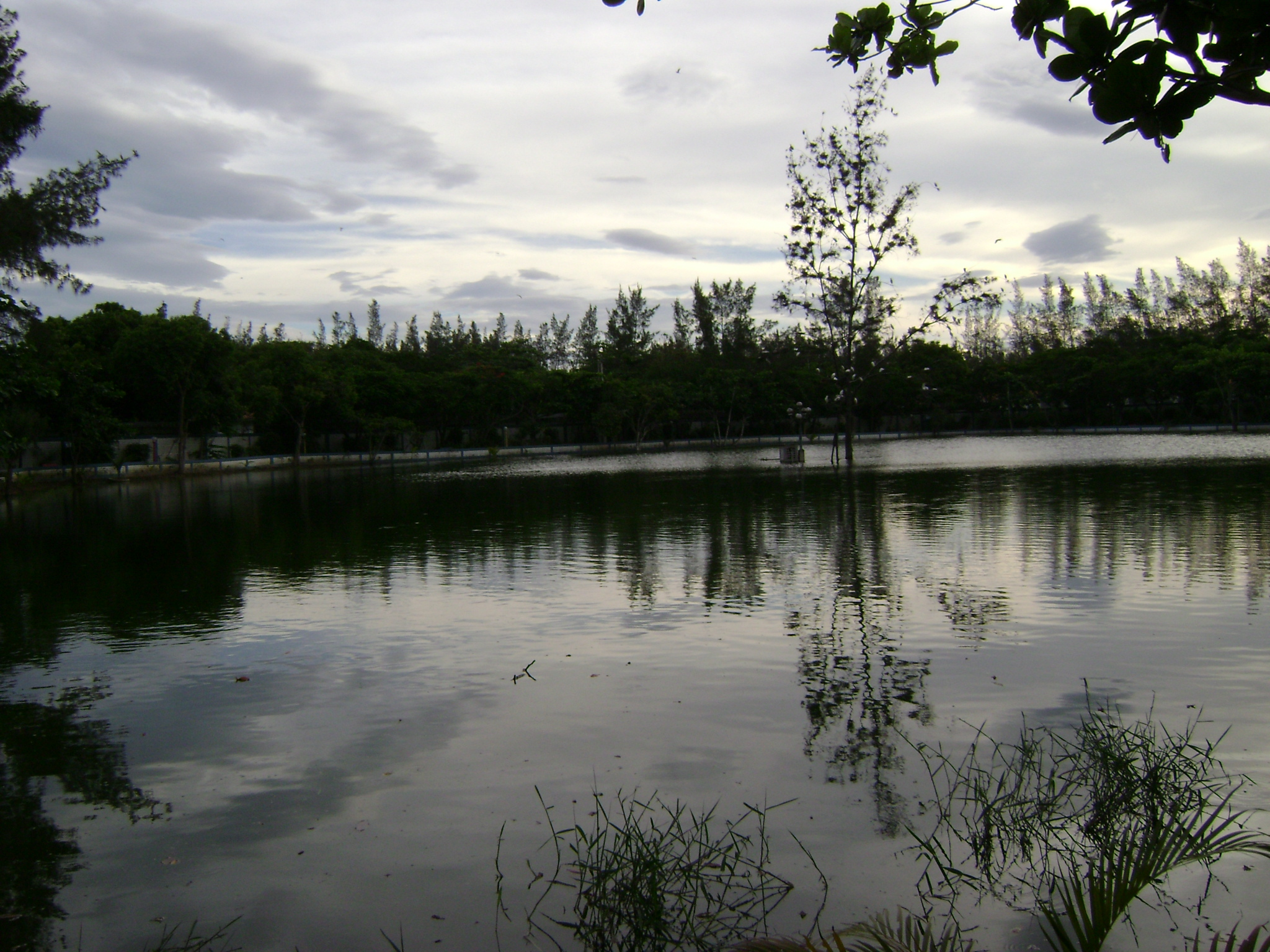 Lagoa em Grussaí (São João da Barra), Rio de Janeiro, Brazil.